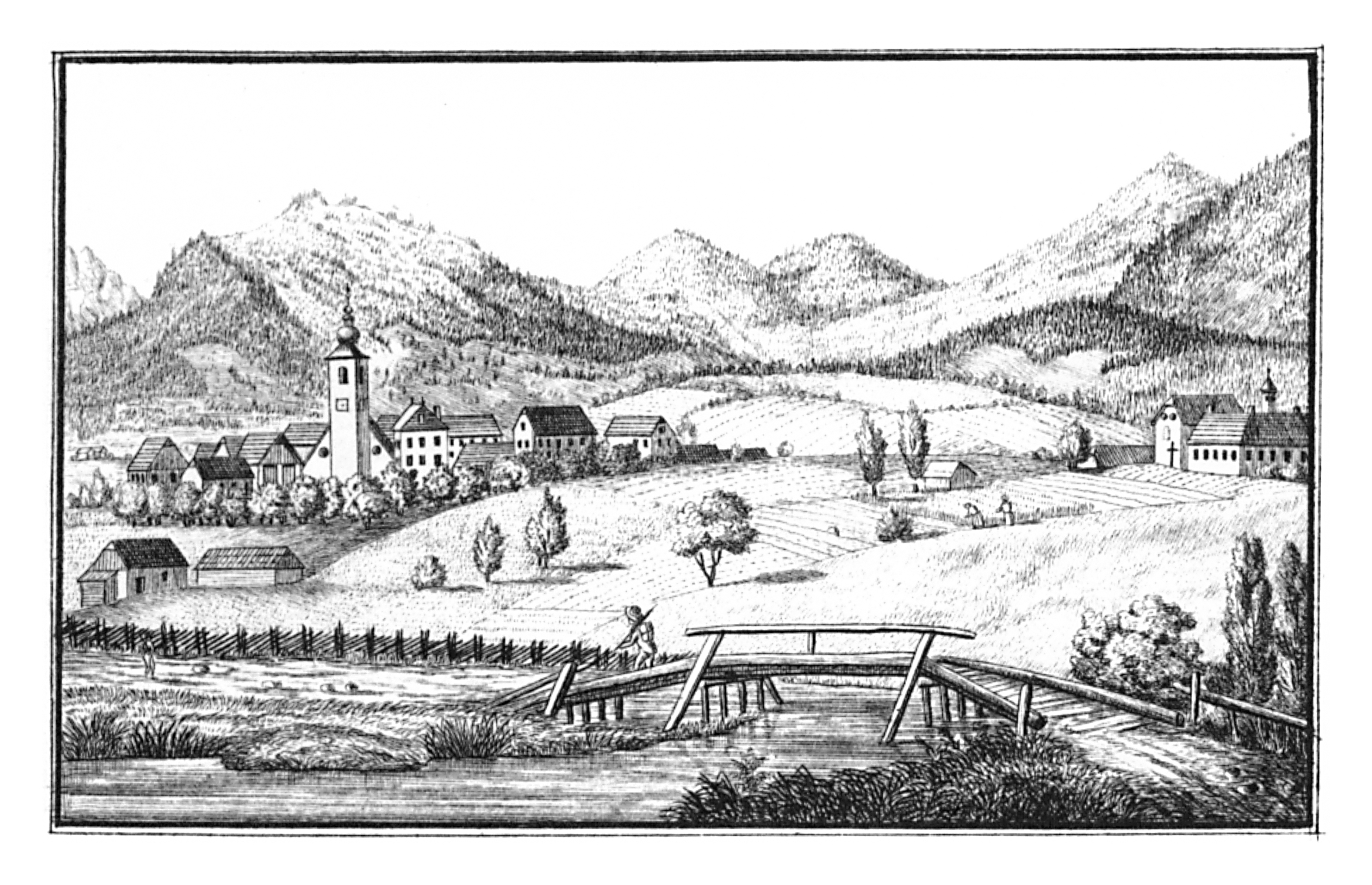 J. F. Kaiser - lithographirte Ansichten der Steyermärkischen Städte, Märkte und Schlösser, Graz 1824-1833 Joseph Franz Kaiser (1786–1859) Alternative names J. F. KaiserDescriptionAustrian printer and editorDate of birth/death 11 March 1786 19 September 1859Location of birth/death Graz (Styria) GrazAuthority control : Q1499963 VIAF: 30629353 ISNI: 0000 0000 3083 0153 LCCN: n87141671 GND: 129880159 NLP: A24960305 WorldCat creator QS:P170,Q1499963 . Scanprojekt Community Projektbudget 2012 This scan or this PDF-file was created within the GLAM-project Bookscanning, supported by Wikimedia Germany and Wikimedia Austria as a part of the community-project to capture books, documents and pictures which are not eligible to copyright or for which the copyright has expired. This document describes or depicts an object which is located in Austria today. Send requests for uncompressed scans to Hubertl. This work is in the public domain in its country of origin and other countries and areas where the copyright term is the author's life plus 100 years or less. You must also include a United States public domain tag to indicate why this work is in the public domain in the United States. This file has been identified as being free of known restrictions under copyright law, including all related and neighboring rights.